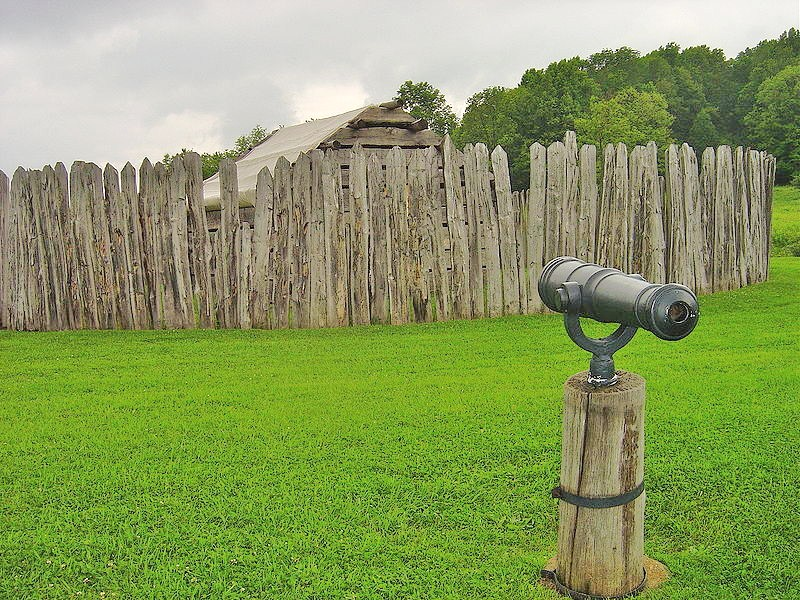 Outside the fort proper, with a reconstructed roof.